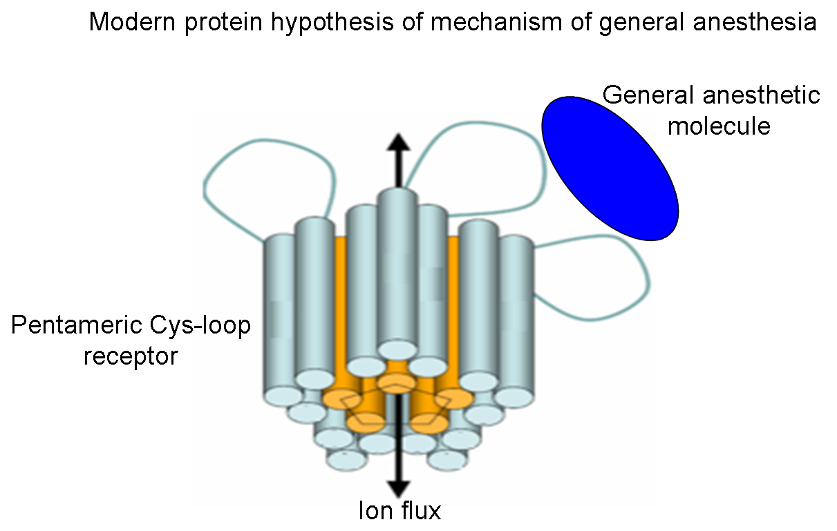 I created this picture in powerpoint using picture made by User:Boghog2 ([1]). Idea for this image was taken from Christian G. Canlas, Tanxing Cui, Ling Li, Yan Xu, and Pei Tang (September 2008) “Anesthetic Modulation of Protein Dynamics: Insight from an NMR Study” J. Phys. Chem. B, 2008, 112 (45), 14312-14318•